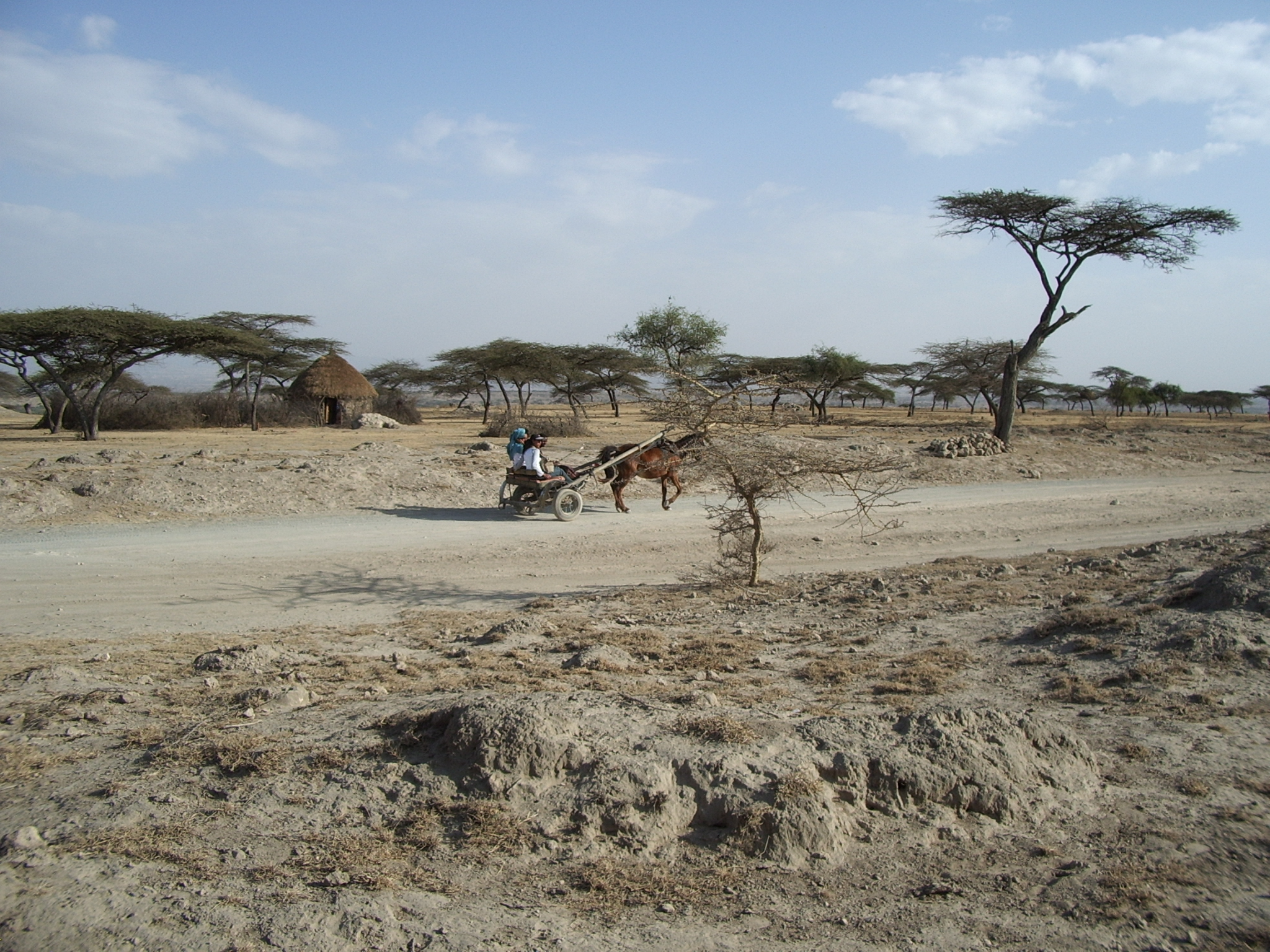 A donkey [??] trolley in the ethiopia desert near Lake Langano